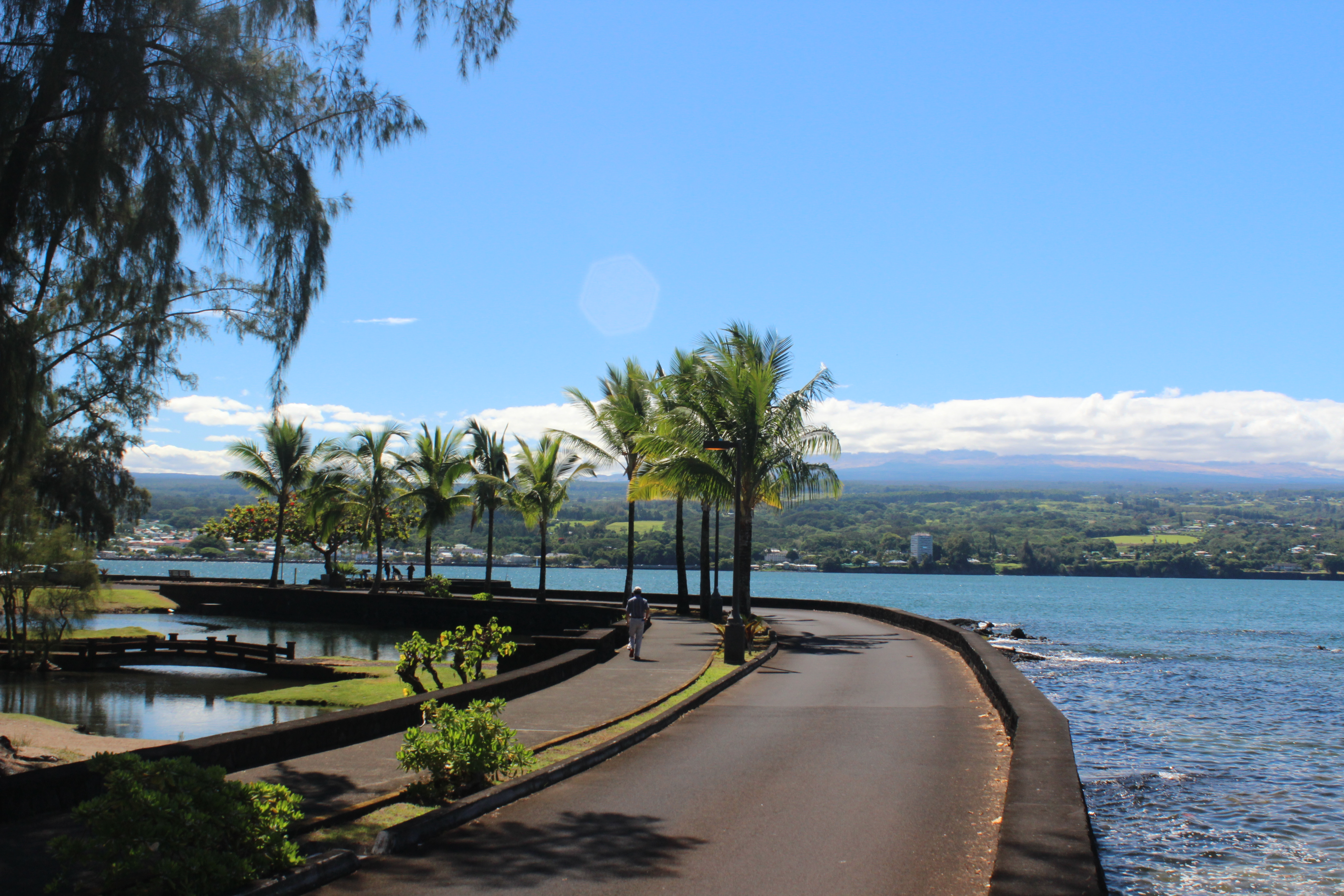 Hilo Bay from Liliu'okalan Gardens